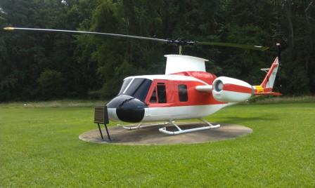 Bell 533 (modified UH-1B) on display at Fort Eustis, VA